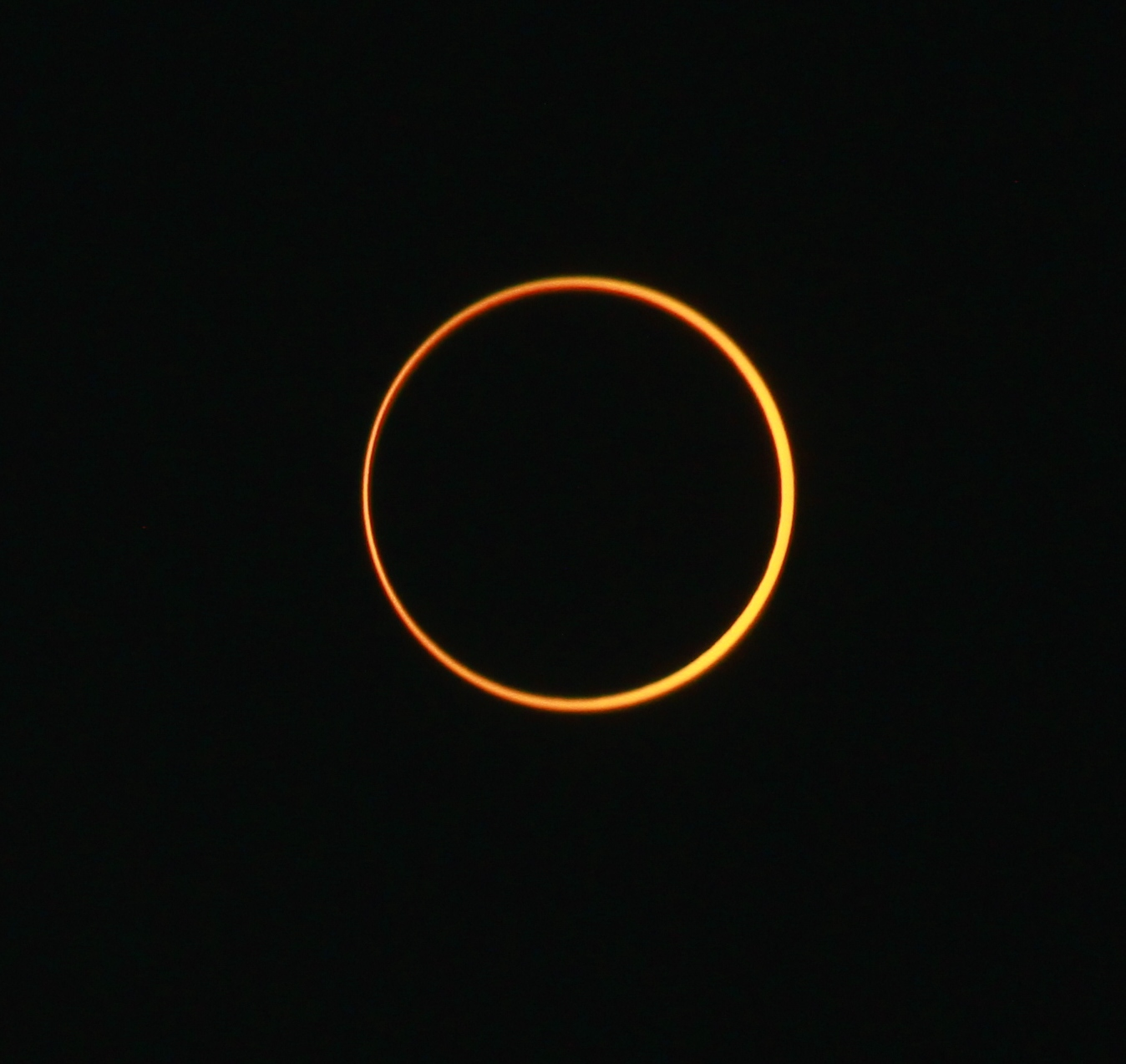 Annular Solar Eclipse at Nilambur 2019.12.26